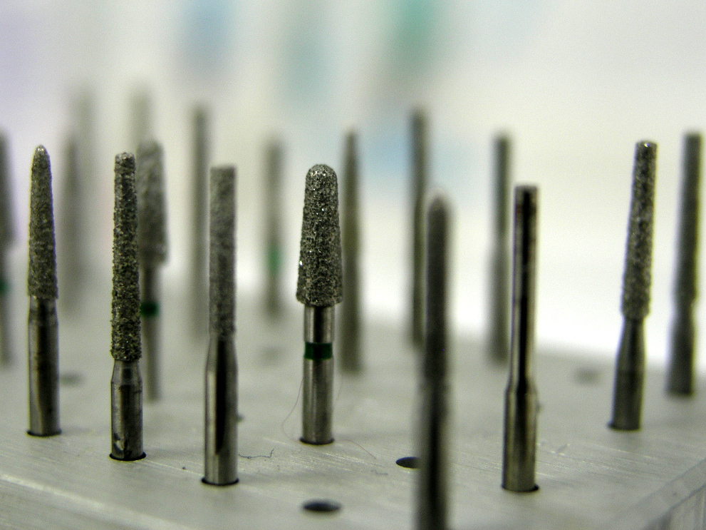 Long drills for dentistry. The photo was taken the 23rd December 2005 by Håkan Svensson (Xauxa).